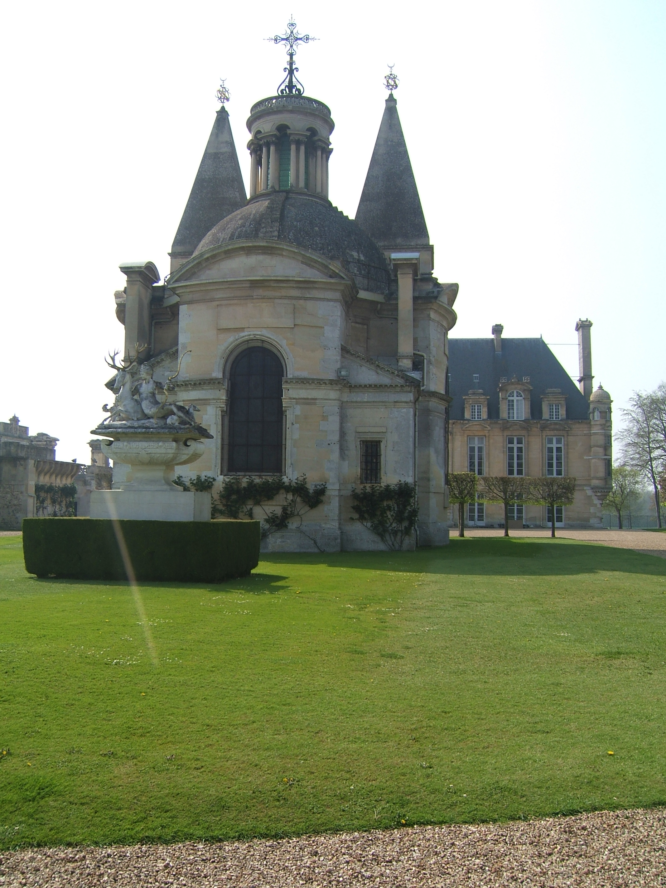 Chapel of the Château d'Anet